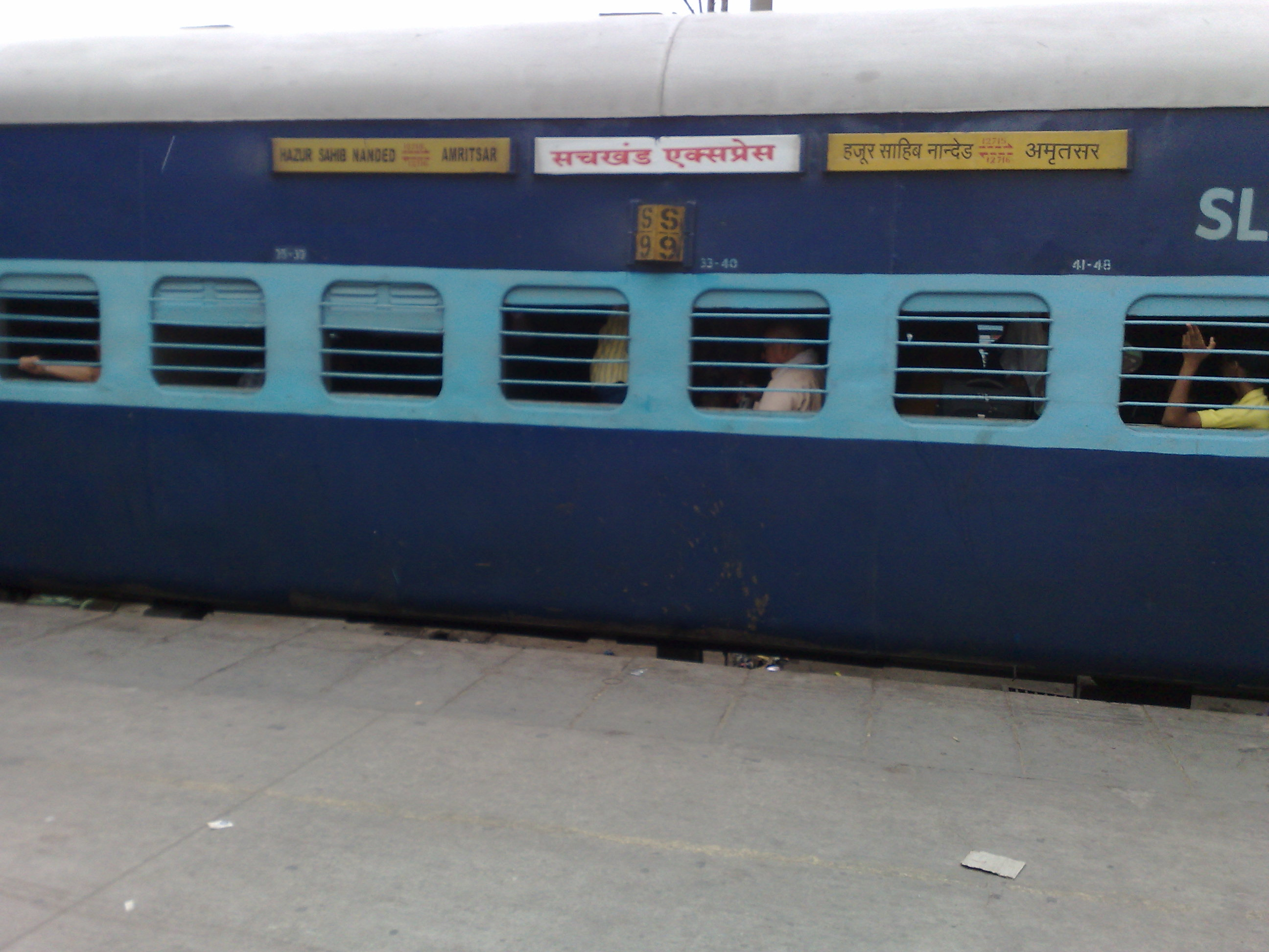 Sachkhand Express - Sleeper Class